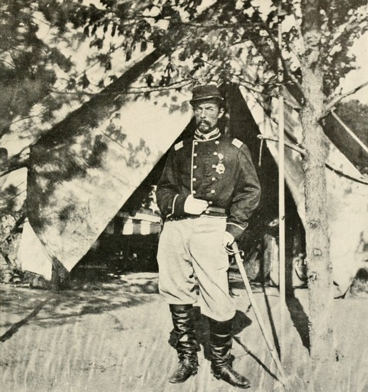 Colonel Alfred N. Duffié